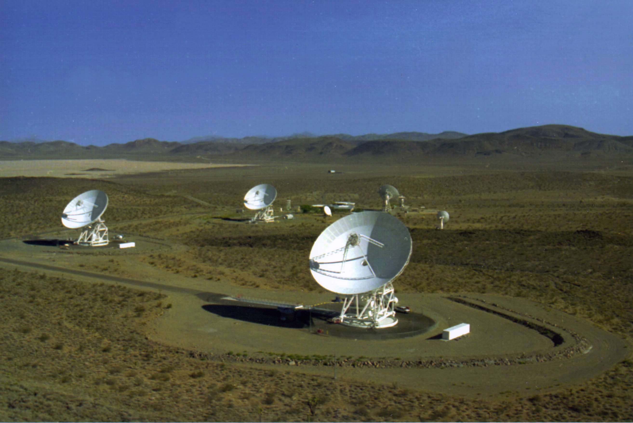 Three 34m (110 ft.) diameter Beam Waveguide antennas located at the Goldstone Deep Space Communications Complex, situated in the Mojave Desert in California. This is one of three complexes which comprise NASA's Deep Space Network (DSN). The DSN provides radio communications for all of NASA's interplanetary spacecraft and is also utilized for radio astronomy and radar observations of the solar system and the universe.